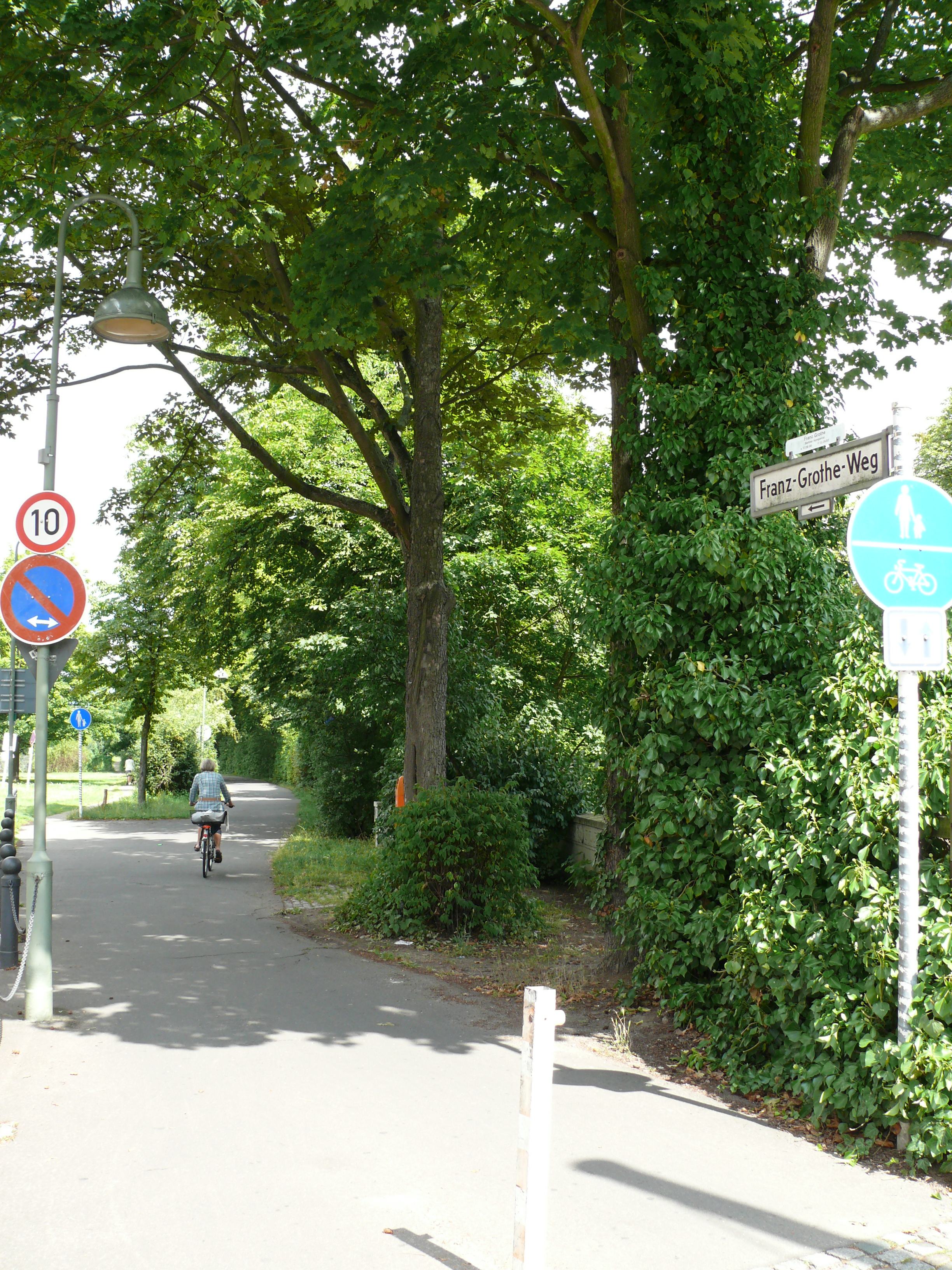 Berlin-Dahlem Franz-Grothe-Weg